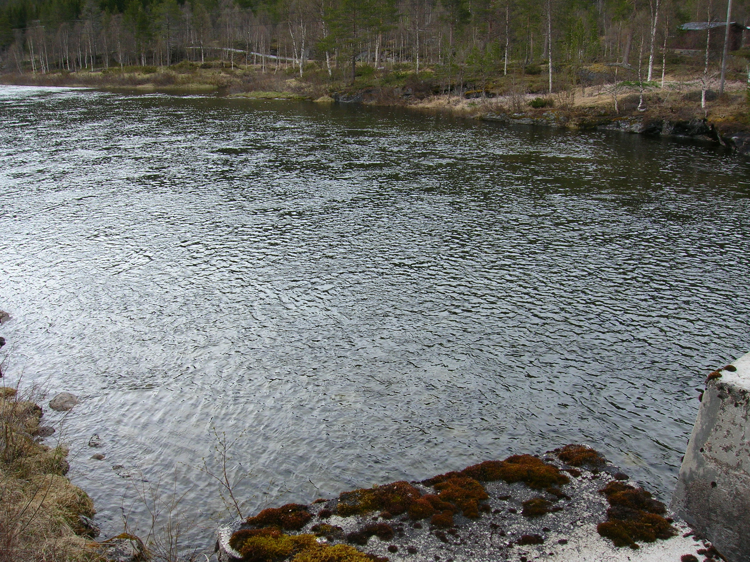 Ranelva seen from the bridge of Krokstrand, Dunderlandsdalen, in Rana municipality, county of Nordland, Norway, Photo 27 May, 2007 with a Nikon Coolpix 5600 5,1 Megapixel camera.